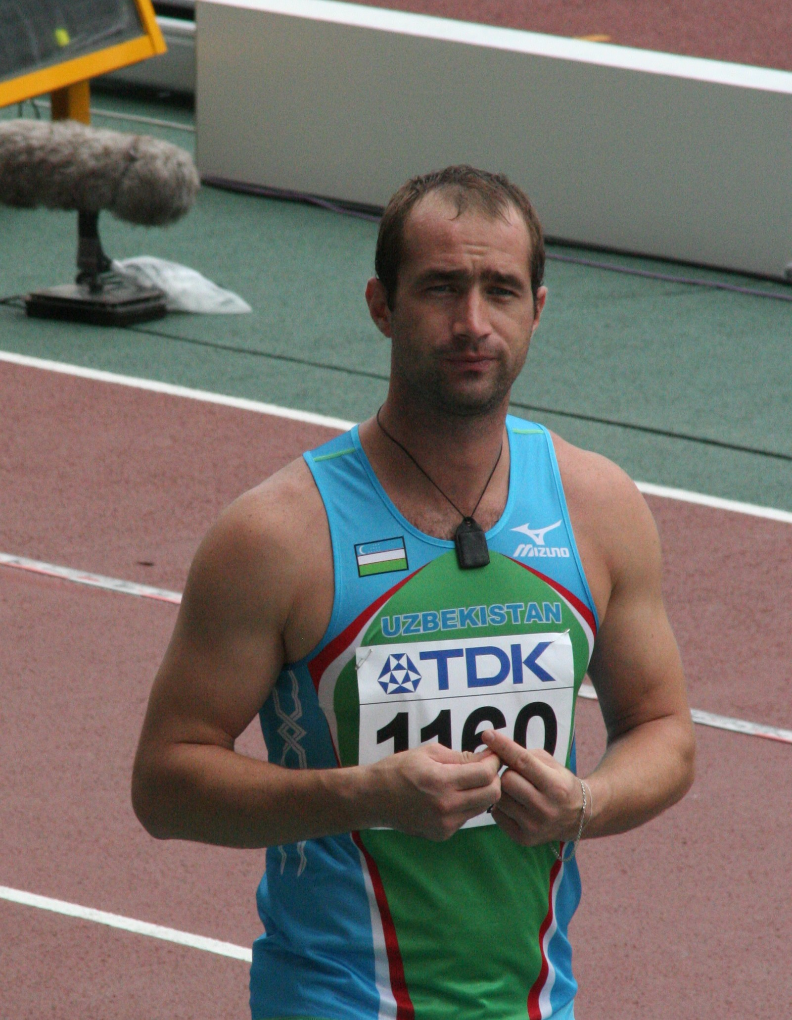 World Athletics Championships 2007 in Osaka - Decathlete Vitaliy Smirnov after giving up at the start of the 100 metres race